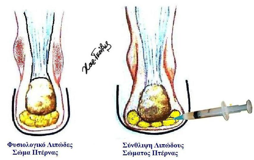 Injection in fat pad